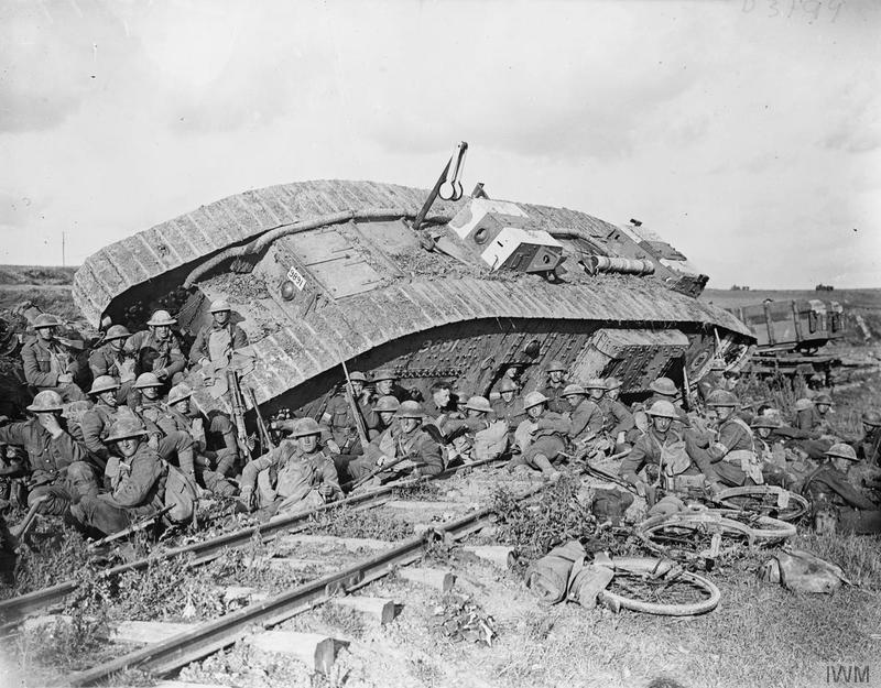 The Hundred Days Offensive, August-november 1918 Battle of Cambrai. Men of the 20th Battalion, Manchester Regiment (25th Division) resting by a tank (serial number 9891), disabled by side-slipping down a railway embankment. Near Premont, 8 October 1918.